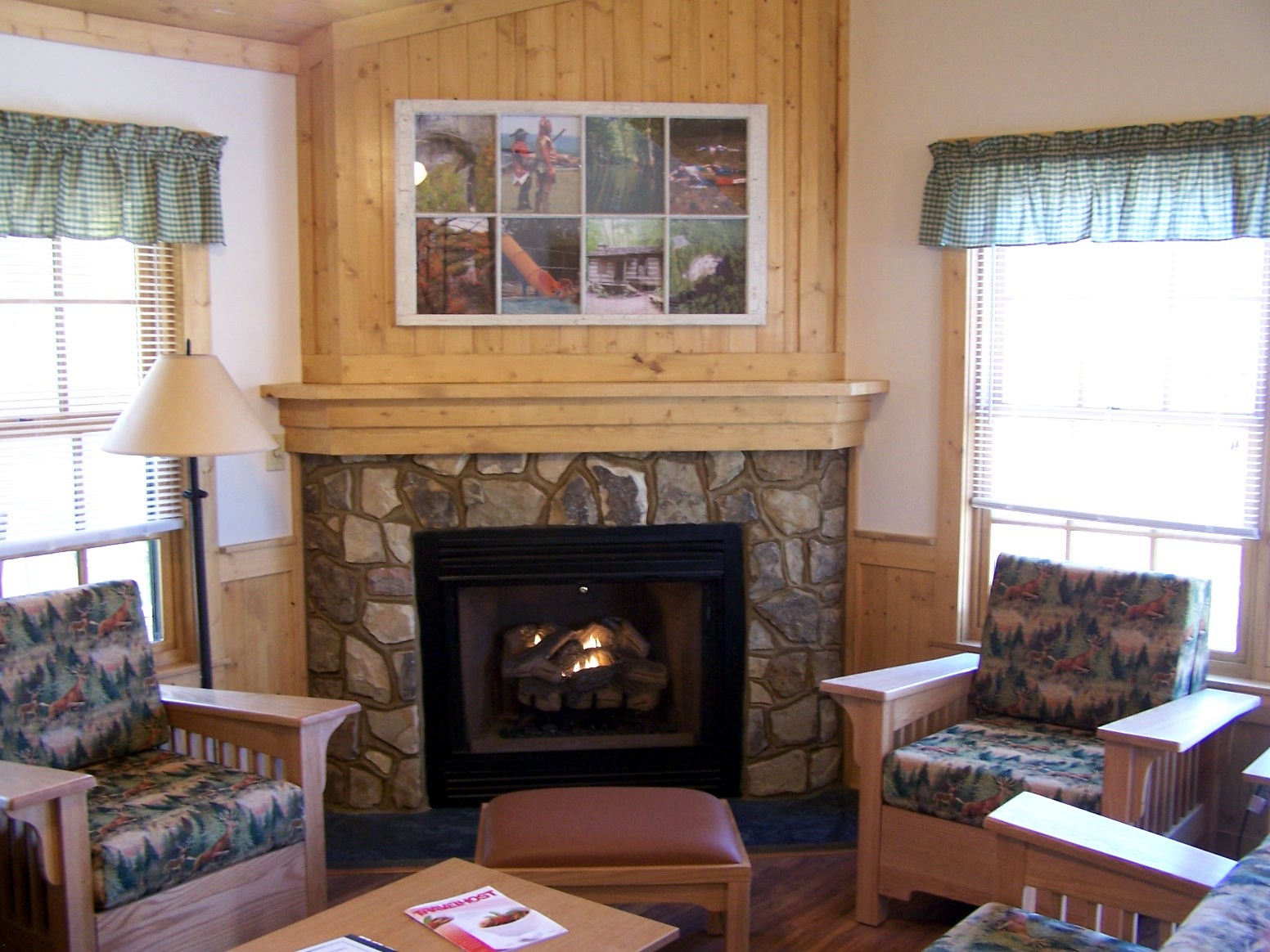 NT Typical gas log fireplace